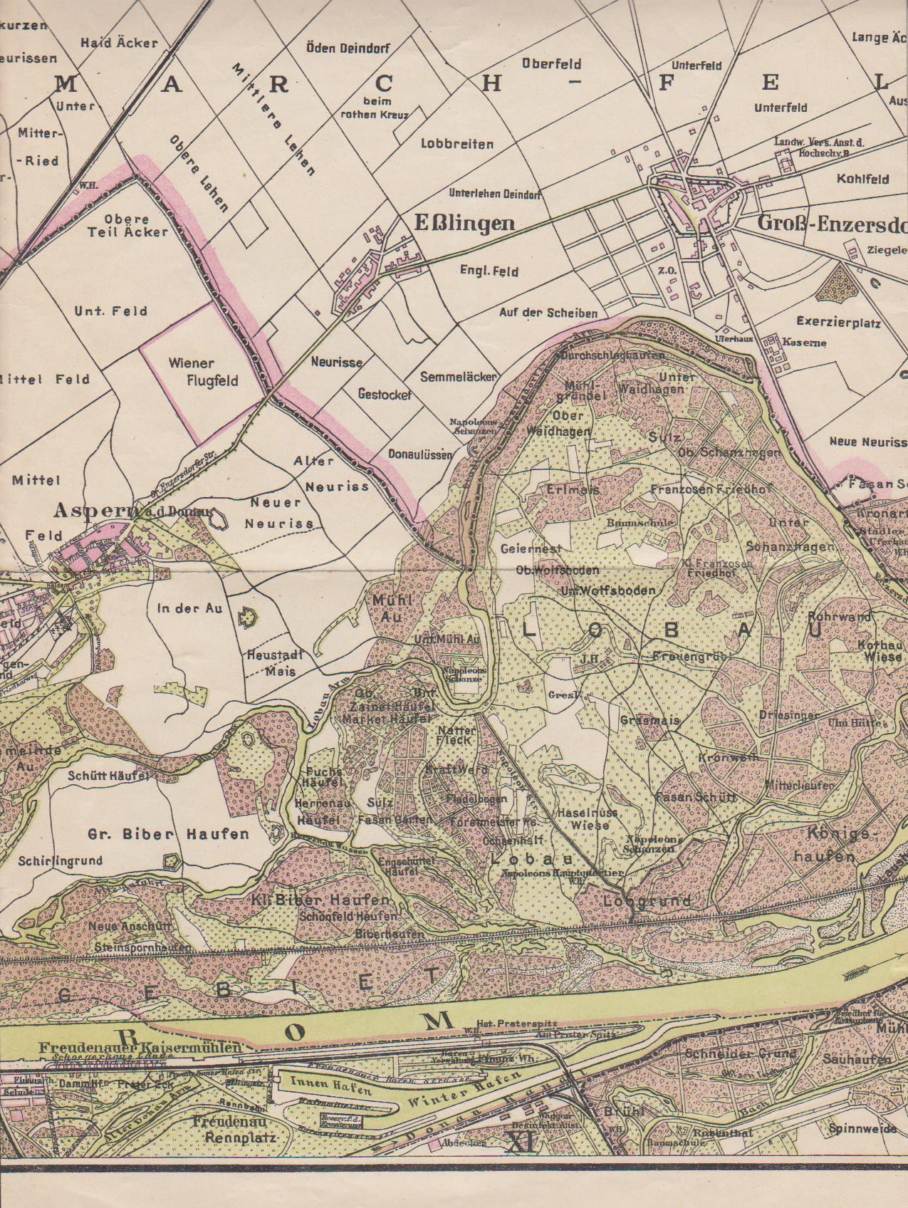 Part of the map XXI. Bezirk, Floridsdorf, als Ergänzungsblatt zum Plan von Wien im Maßstabe 1 : 30000 (21st district, Floridsdorf, supplement to the map of Vienna scale 1 : 30000), showing the suburb of Eßlingen (today called Essling, part of the 22nd district) and its surroundings; attachment to Lehmanns allgemeinem Wohnungs-Anzeiger von Wien für 1912 (Lehmann's general Appartments' Advertiser of Vienna for the year 1912)